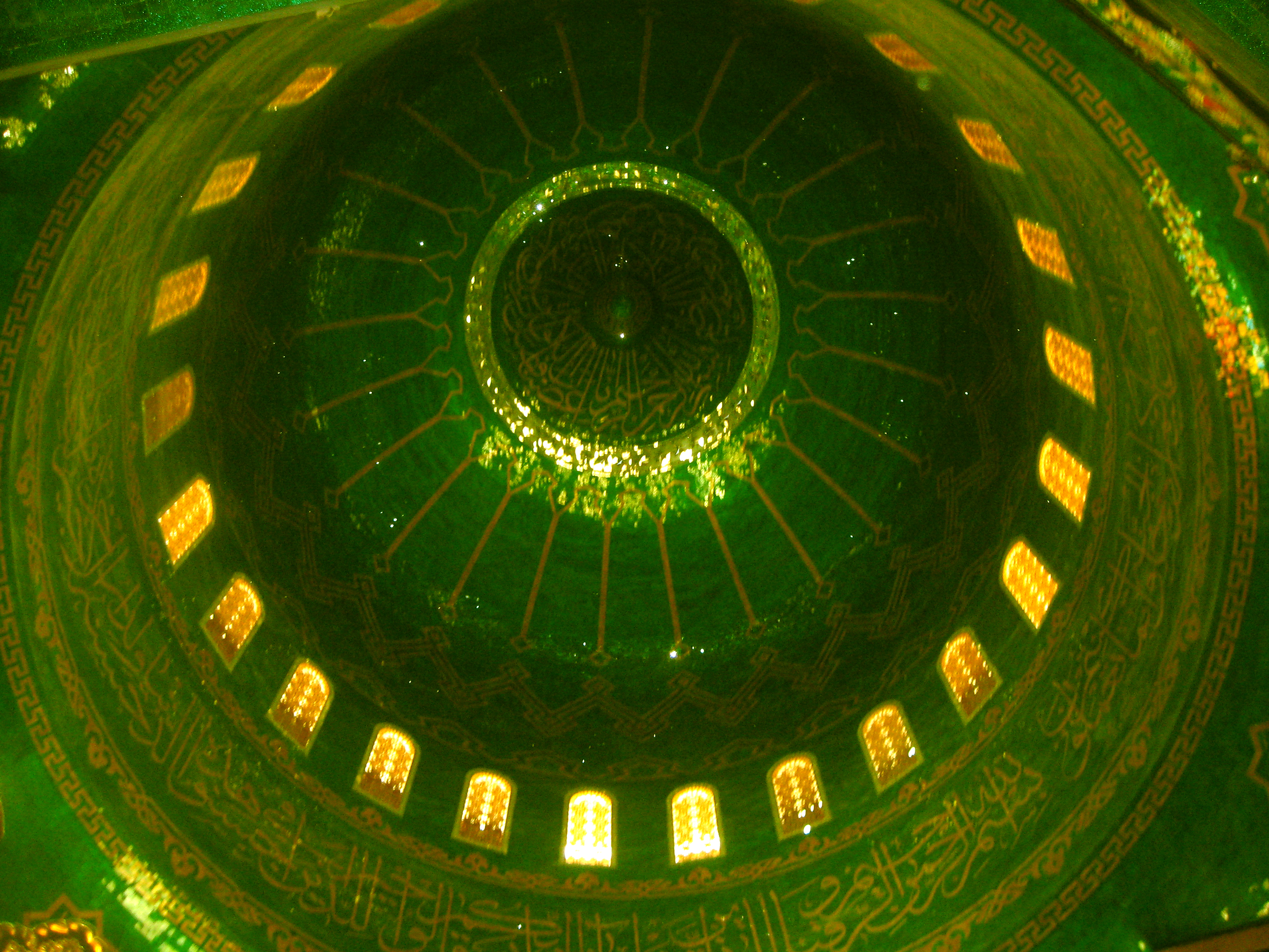 Dome of Bibi-Eybat mosque (inside)